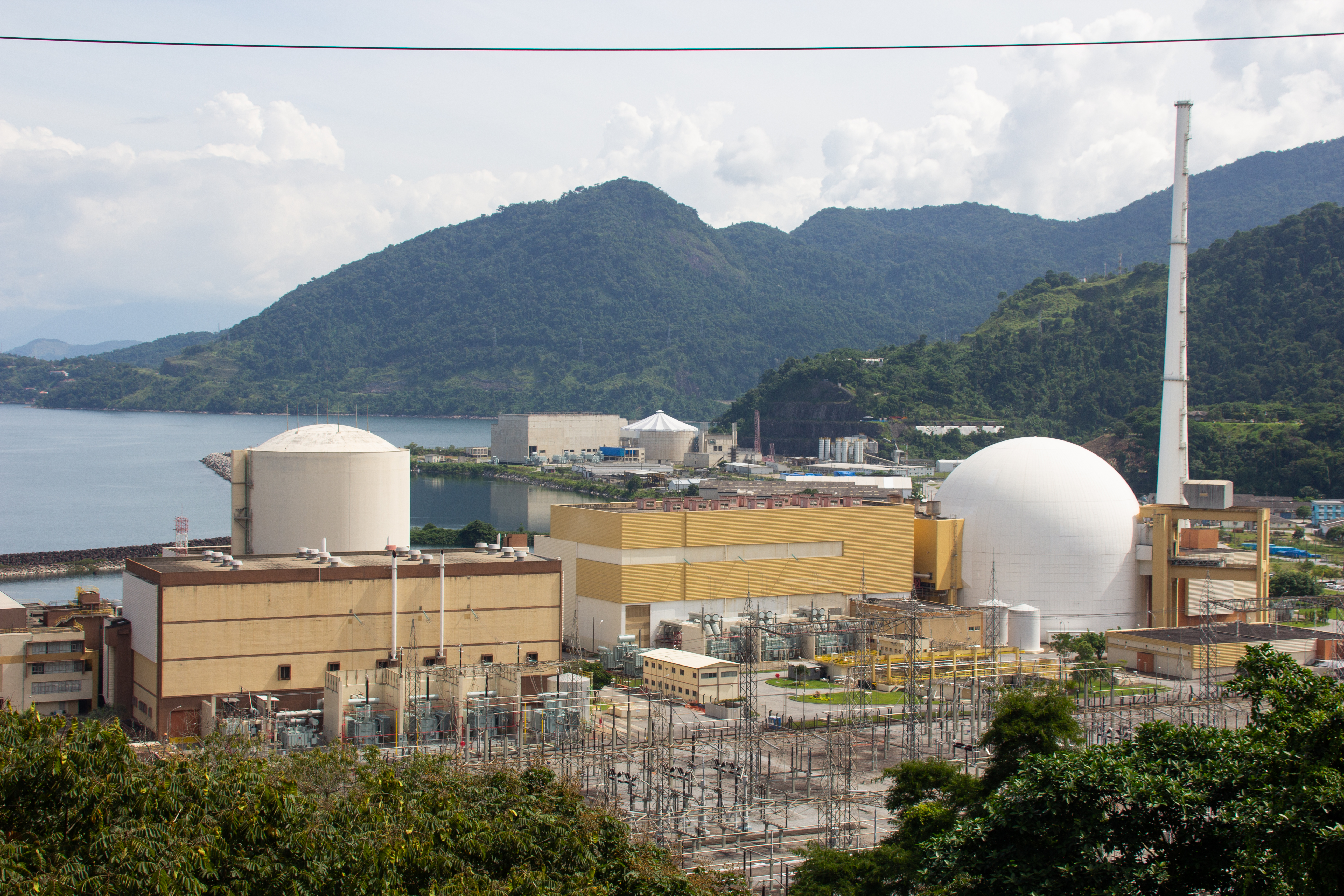 Around Paraty and area, Brazil